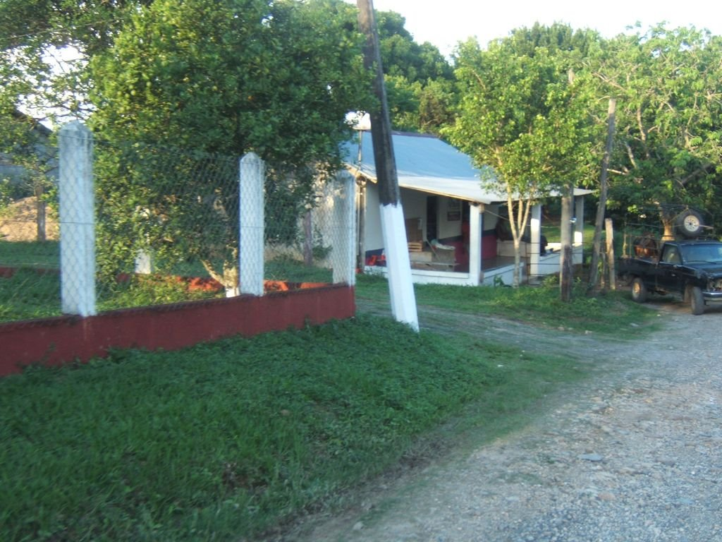 Conasupo de Juan de la Luz Enriquez en Jesus Carranza Veracruz